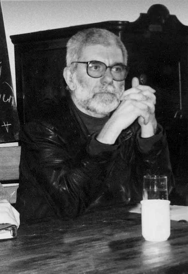 Priest J.P.Storek